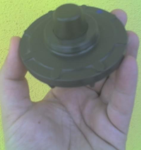 Tecnovar VAR/40 antipersonnel blast mine - Inert training version